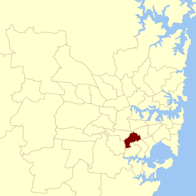 Location of the New South Wales Legislative Assembly electoral district within Sydney in New South Wales. Reference: [1]